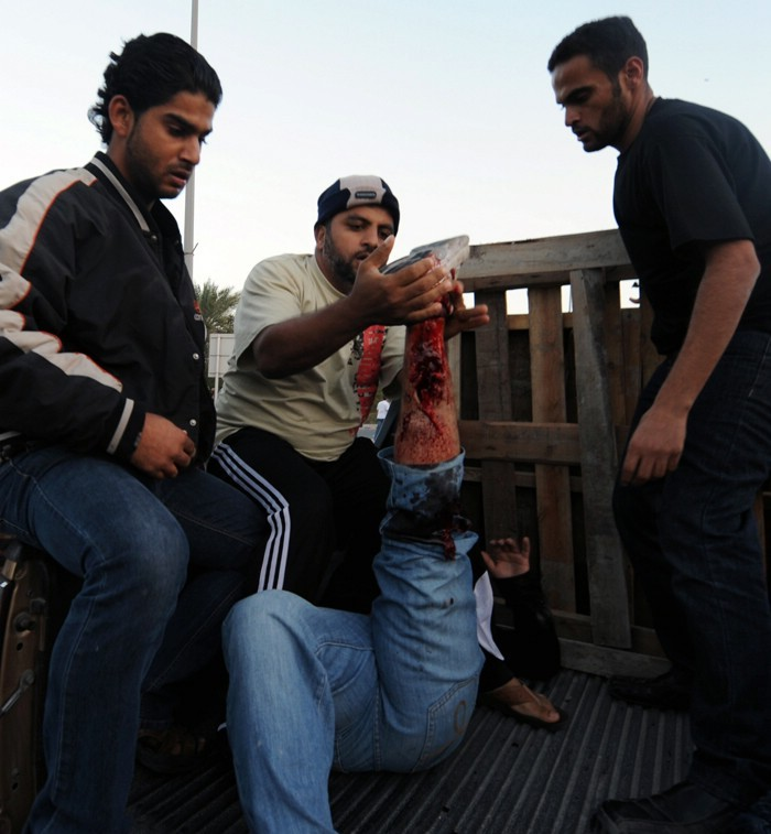 A protester shot in his leg being carried in car